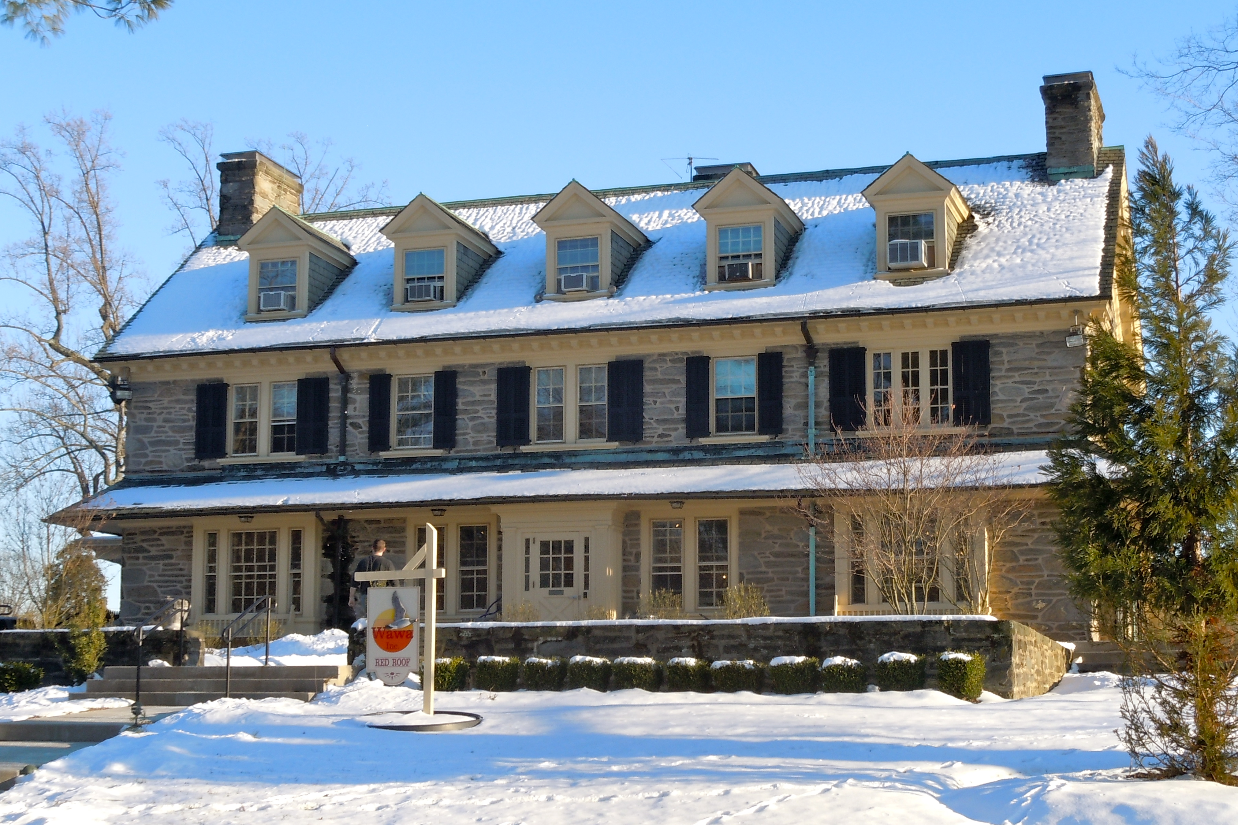 "Red Roof" - corporate headquarters of Wawa, the convenience store chain. Lots of more modern buildings are connected to this one, which appears to be a mansion from the late nineteenth century. Coords 39.898839,-75.467277 On Red Roof Lane, near Media, PA just off US 1